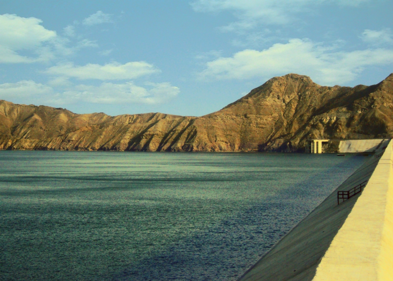 Mirani Dam (Urdu: میرانی) is a medium-size multi-purpose concrete-faced rock-filled dam located on the Dasht River south of the Central Makran Range in Kech District in Balochistan province of Pakistan. Its 302,000 acre feet (373,000,000 m3). reservoir is fed by the Kech River and the Nihing River.[2] Mirani Dam was completed in July 2006 and it impounded the Dasht River in August 2006. It successfully withstood an extreme flood event in June 2007.[3] The dam is used for irrigation of 33,200 acres in Kech Valley and for the supply of clean drinking water to Turbat and Gwadar.